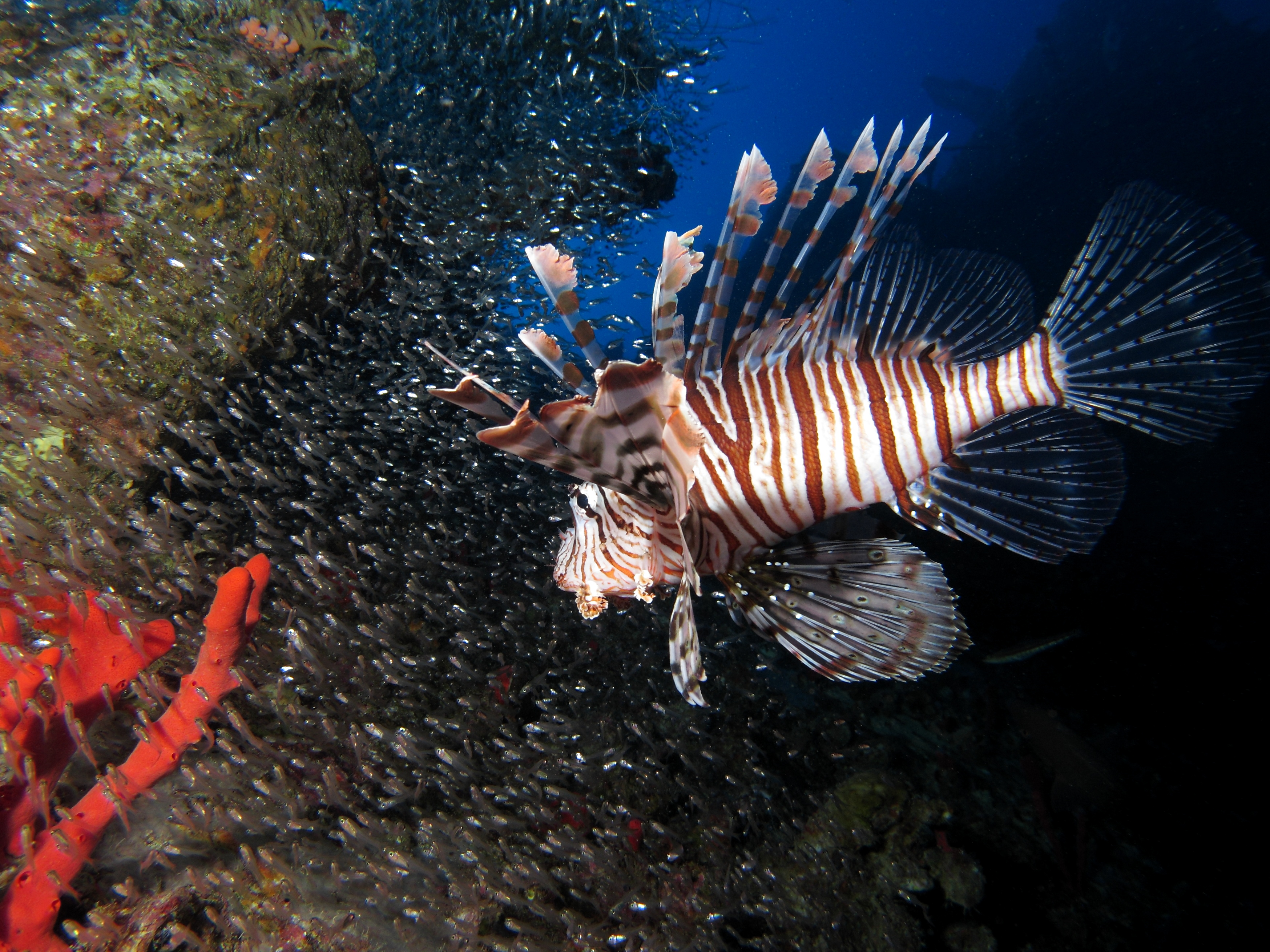 Common lionfish (Pterois miles) hunting glassfish at El Mina wreck (near Hughada, Egypt)